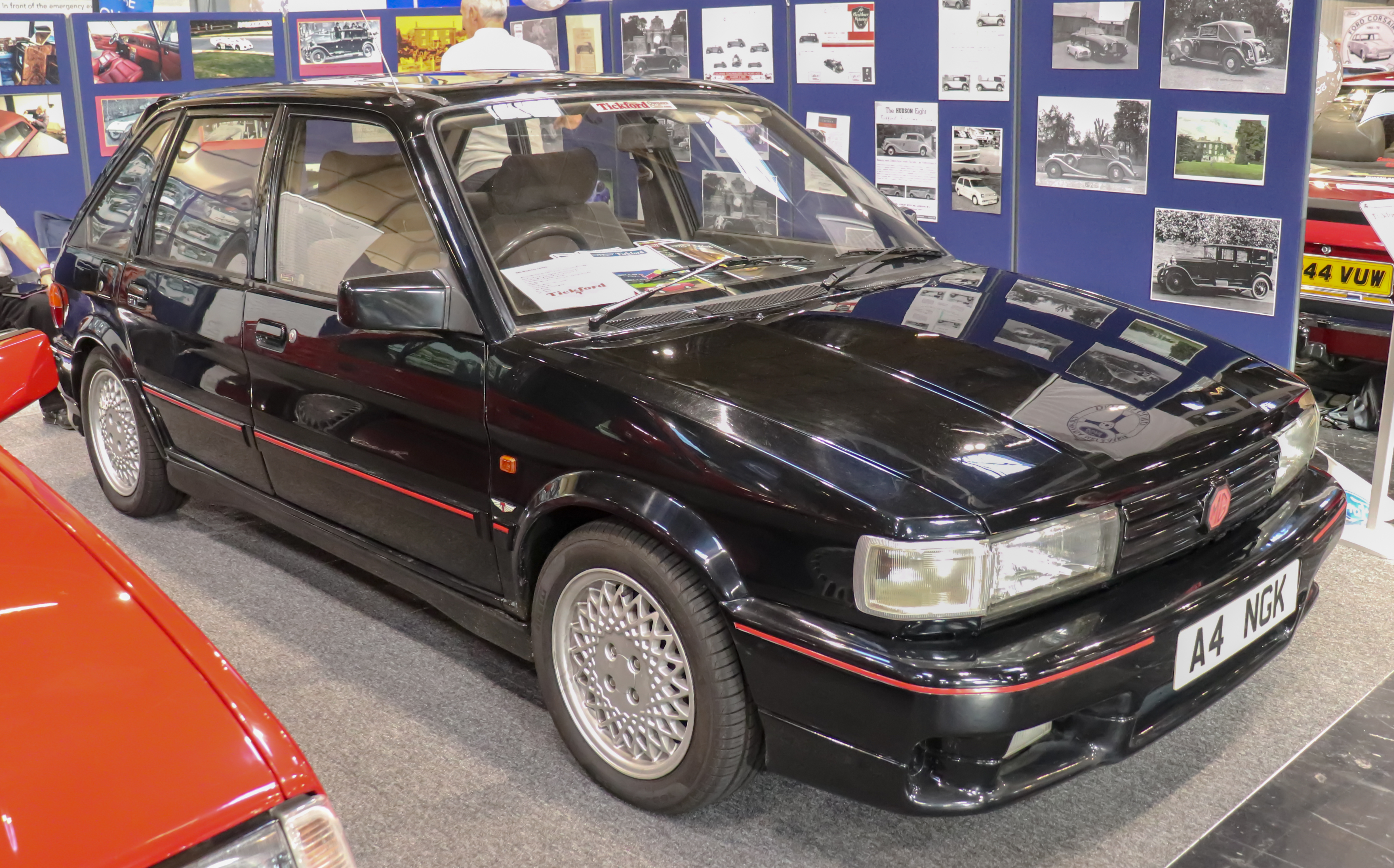 1989 MG Maestro Turbo 2.0 Taken at the NEC Classic Motor Show 2018